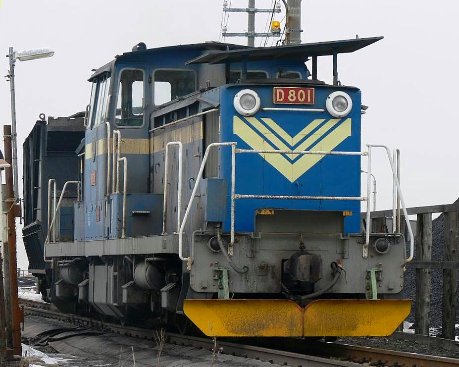 Taiheiyo Coal Services and Transportation D801 Diesel locomotive (Japan).